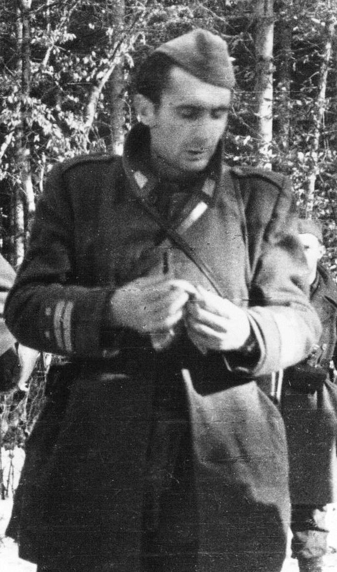 Mile Kilibarda